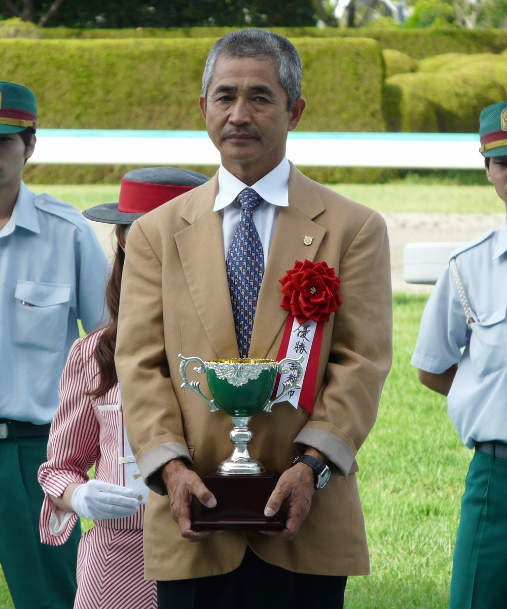 Kiyotaka-Tanaka20110918